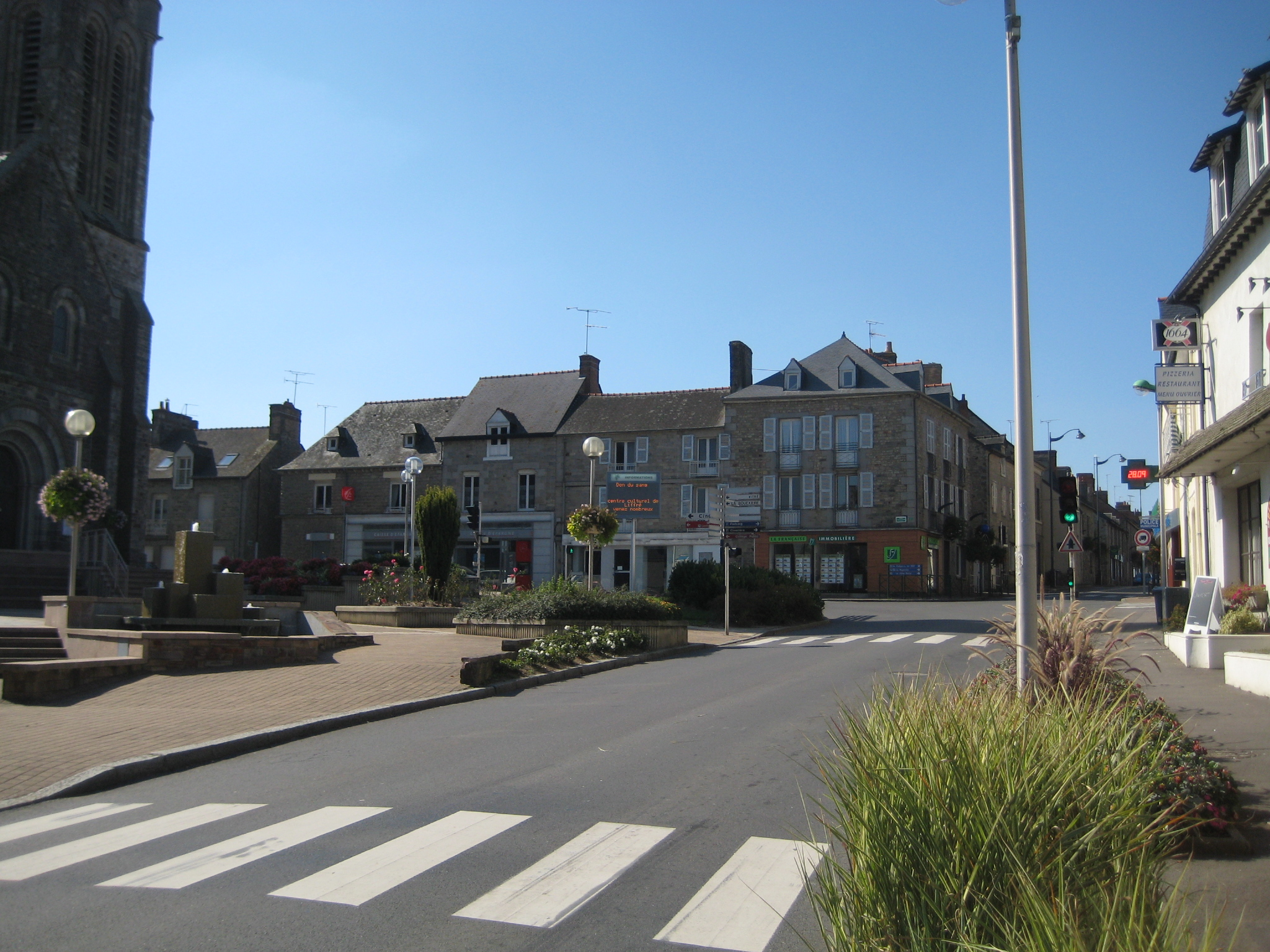 Liffré, main road